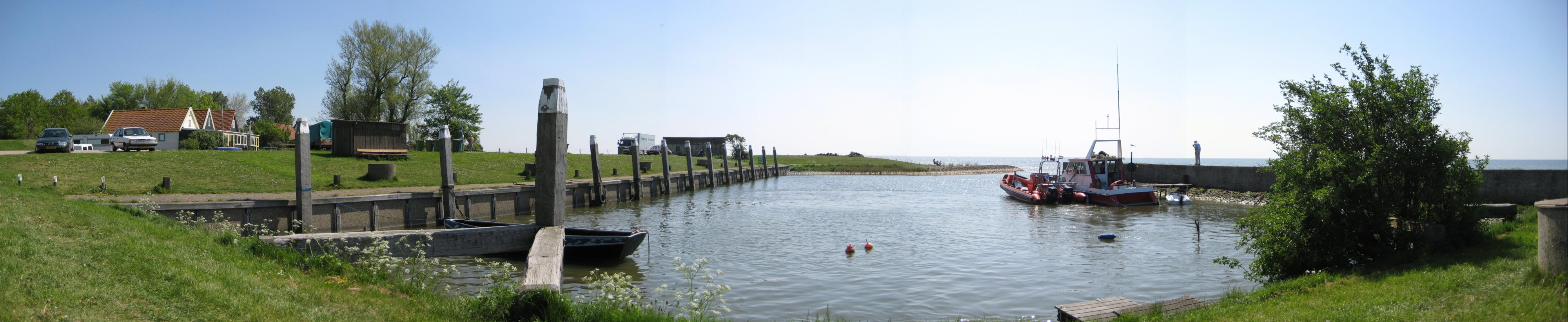 The small harbour of Laaksum in the Dutch province of Fryslân